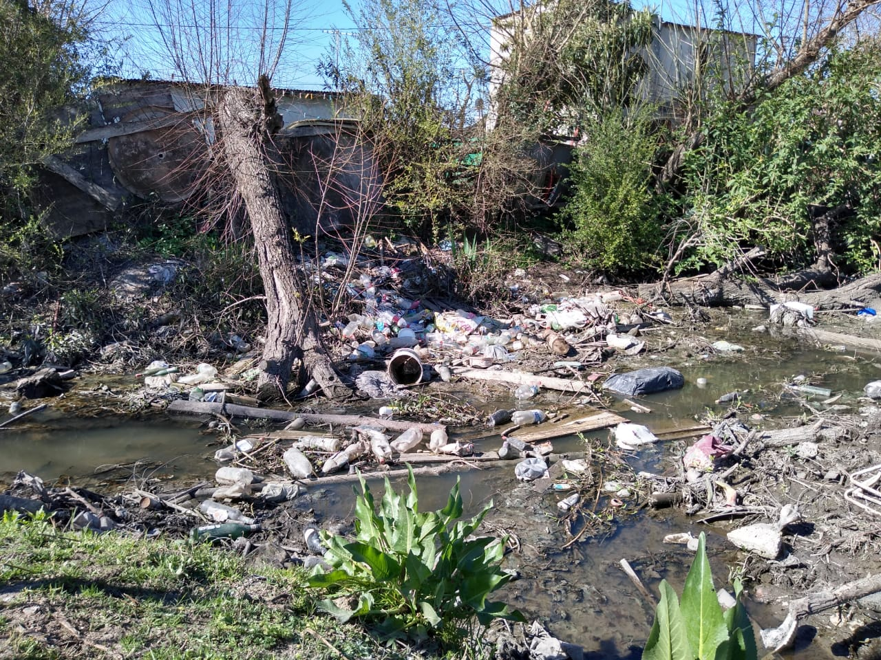 La imagen muestra el Arroyo Escobar, en la localidad de Ingeniero Maschwitz, contaminado durante el mes de Septiembre de 2019